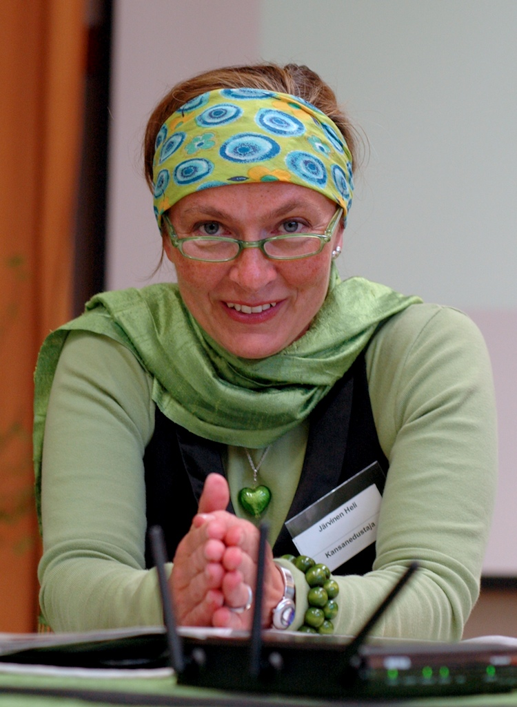 Heli Järvinen, a member of Finnish Parliament, at the 2008 party convention of Green League